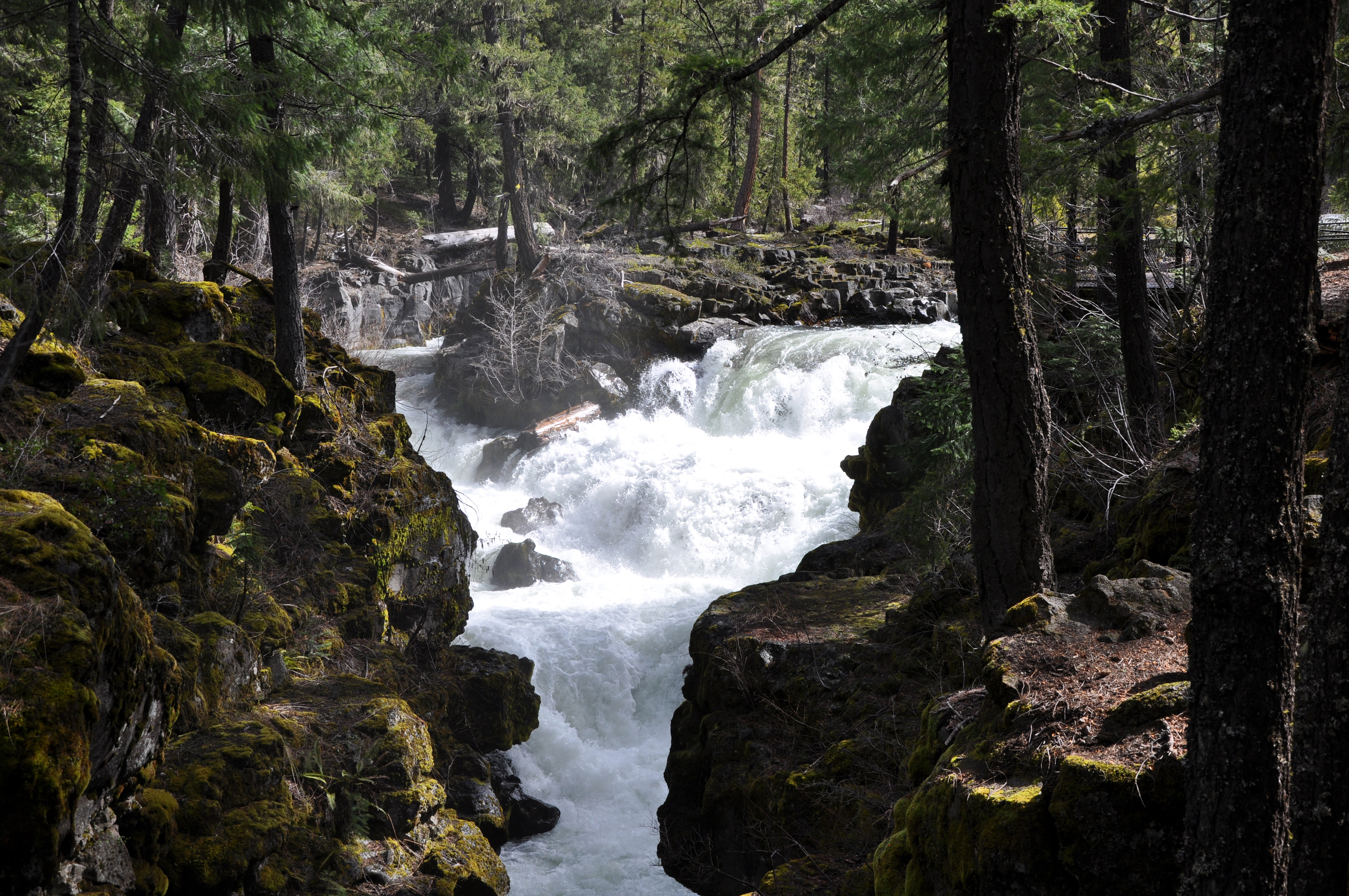 The Rogue River plunges into Rogue River Gorge, a narrow slot cut through beds of lava at Union Creek in the U.S. state of Oregon.